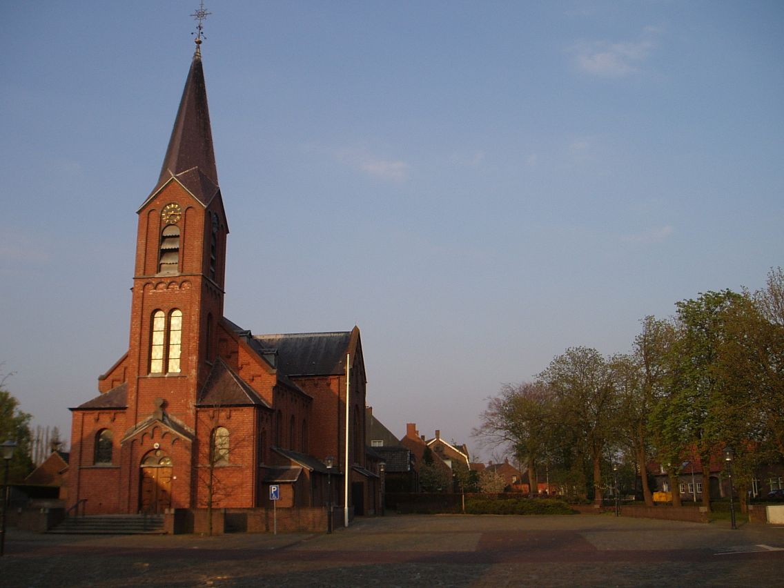 Hulsel, church and village centre